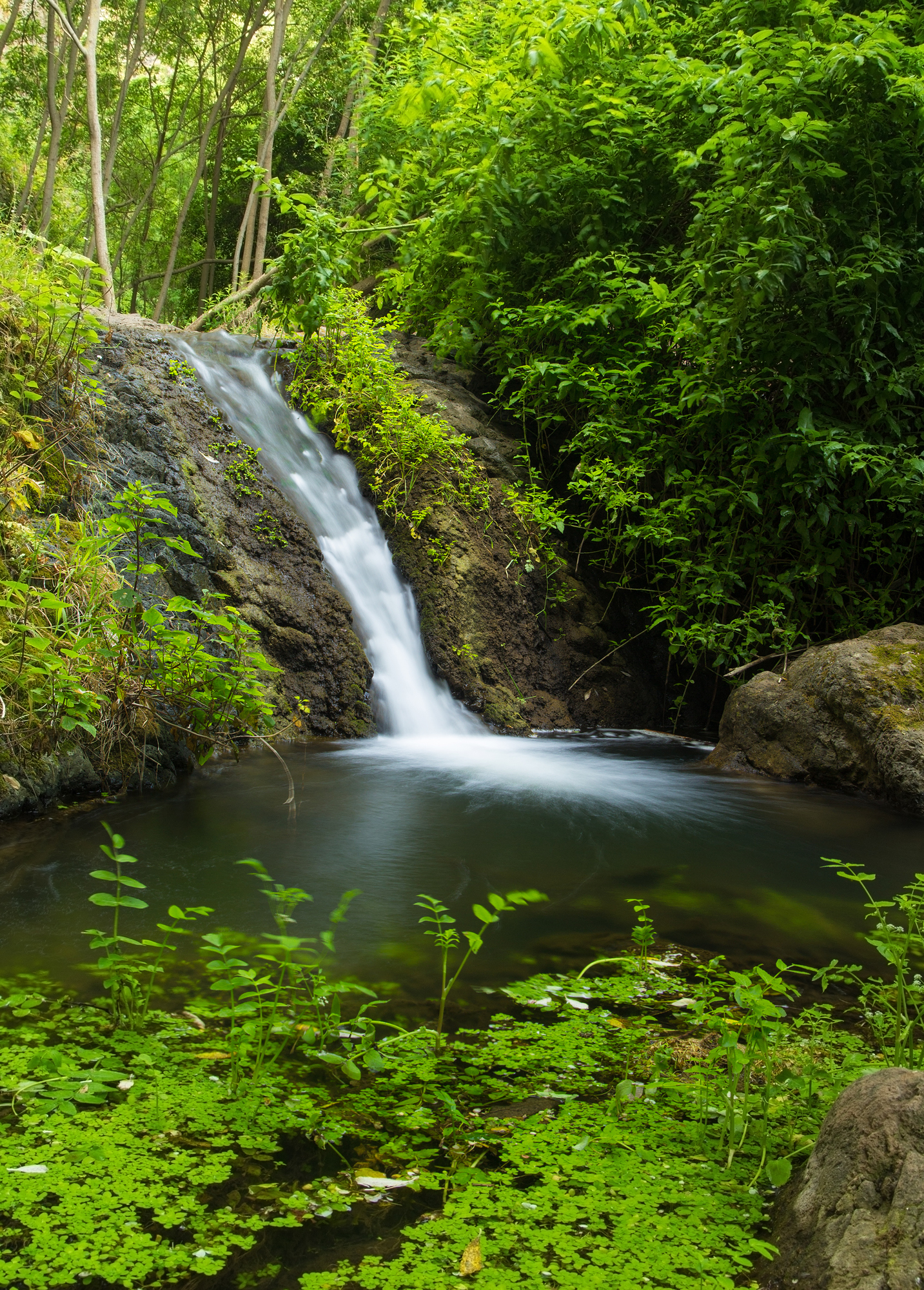 Gran Canaria, nature reserve Barranco de Azuaje between Moya and Firgas, one of very few water springs on the island, small cascade This is a photography of a Site of Community Importance in Spain with the ID: ES7010004. Natura2000 entry, EEA entry